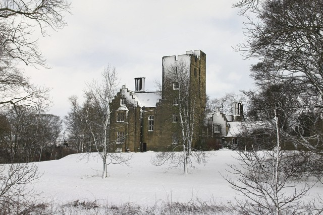 Westerdale Hall, near to Westerdale, North Yorkshire, Great Britain. Westerdale Hall seen from the South-West. It was designed by Thomas Henry Wyatt (Thomas_Henry_Wyatt ) as a shooting lodge for the Fevershams of Duncombe Park, Helmsley during the grouse shooting season on Westerdale Moor. The nearby moors are still a valuable sporting estate, shooters now stay at Dale View Farm across the valley. After WW2 it became a Youth Hostel but is now a private residence.